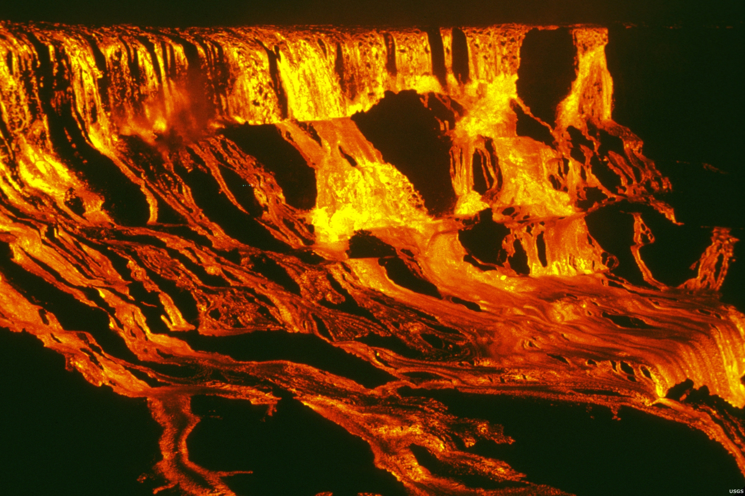 Lava cascades from Mauna Ulu flowing down into Alae crater, Kilauea, Hawaii, United States